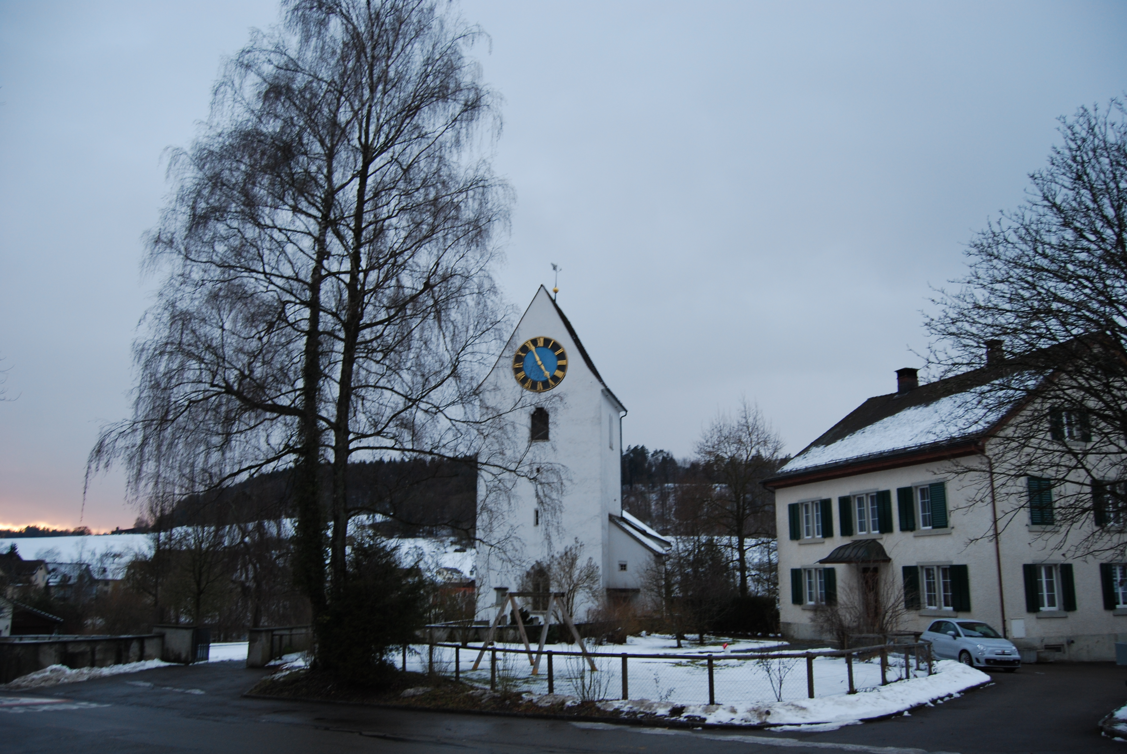 Church of Weisslingen, canton of Zürich, SwitzerlandEsperanto: Preĝejo de Weisslingen, Kantono Zuriko, Svislando